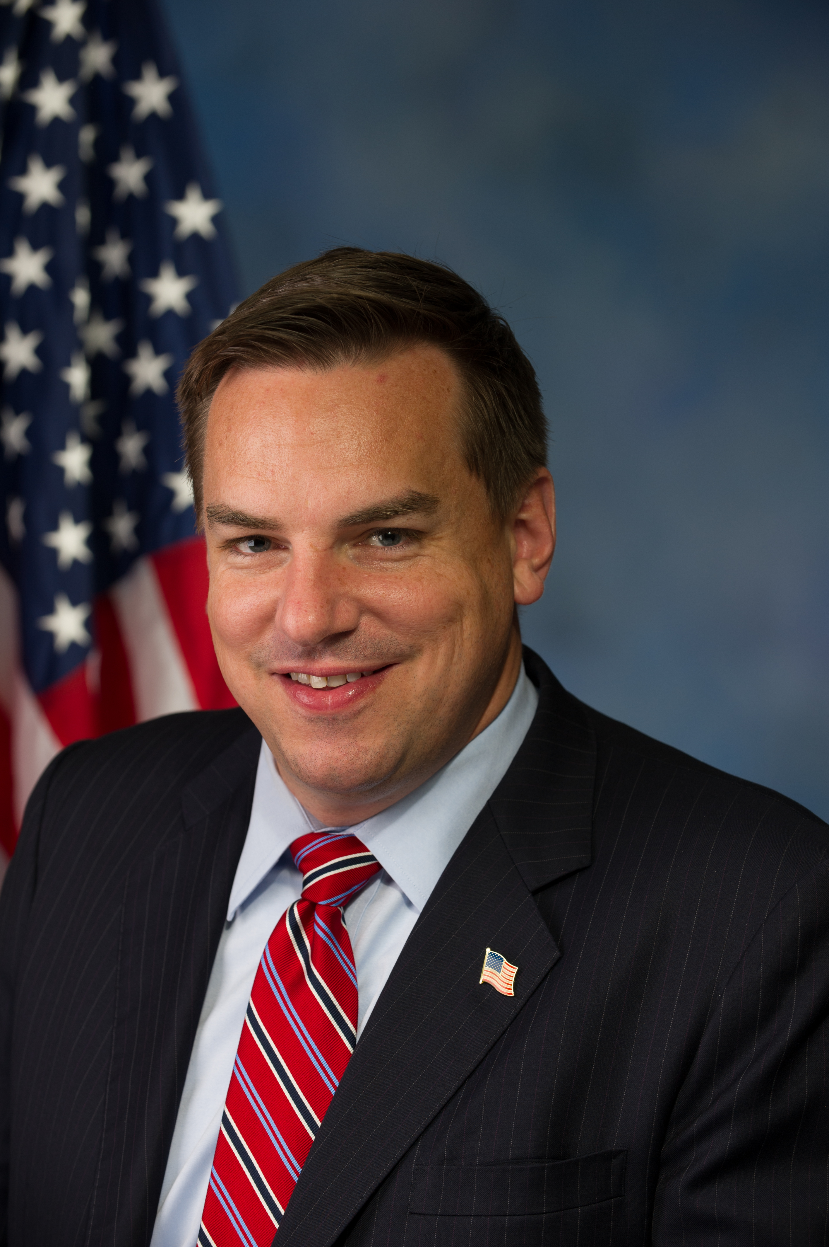 Richard Hudson